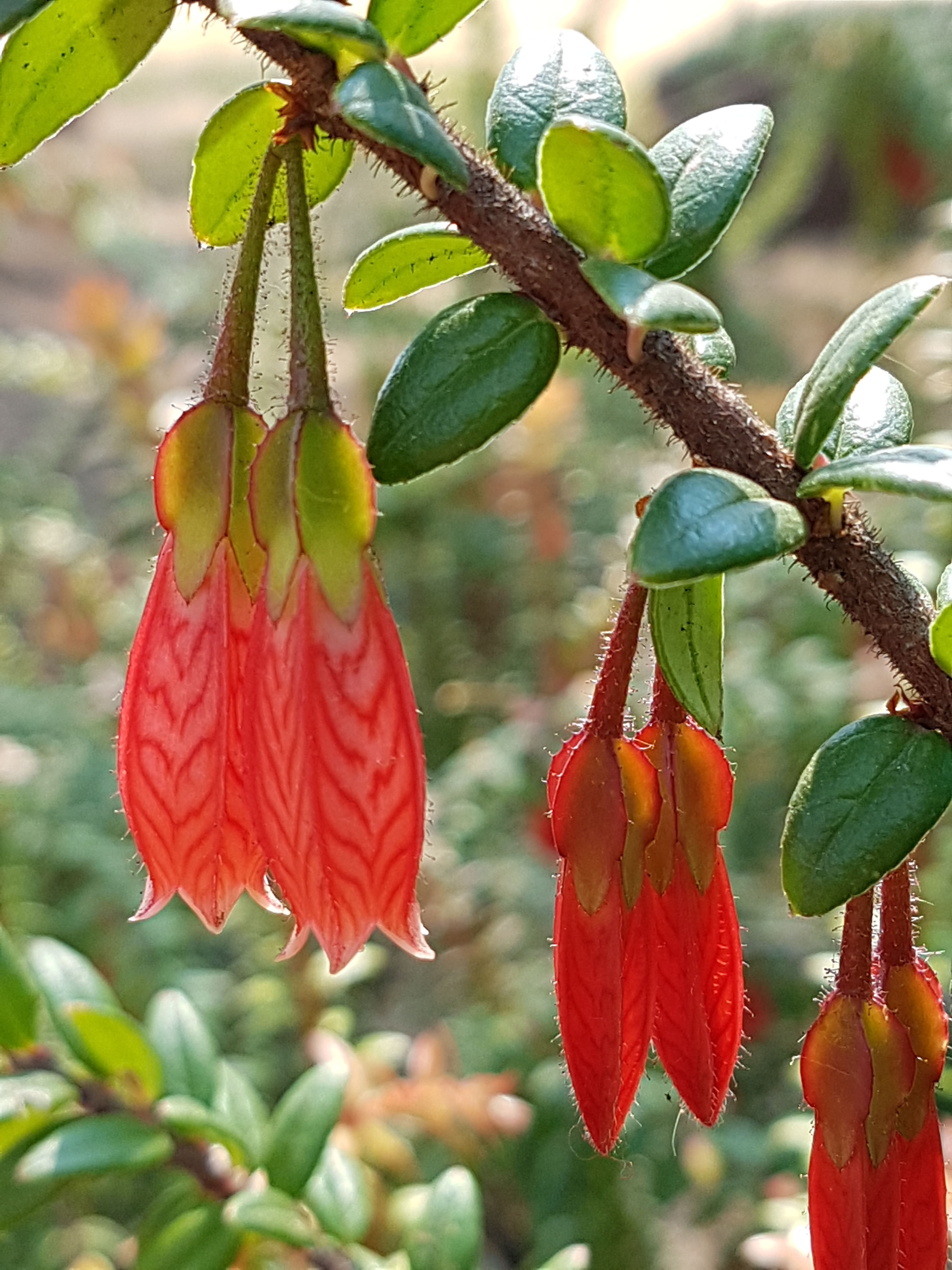 Agapetes serpens (Wight) Sleumer - Ericaceae - Johannesburg Botanical Garden, South Africa